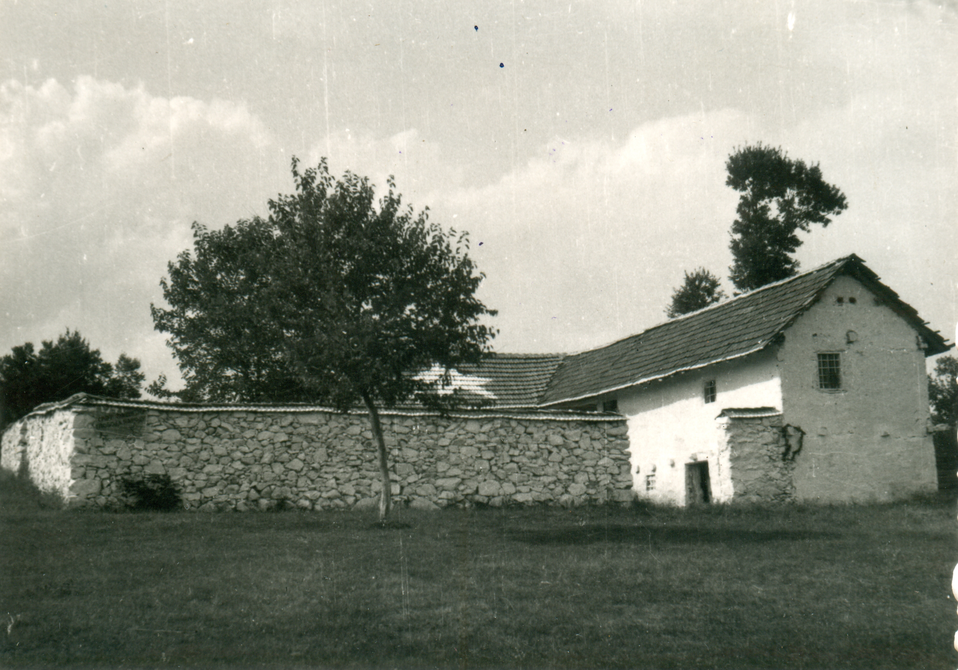 Headquarter of the Krajina Partisan Detachment in Stevanske livade near Sikole, Negotin Srpski (latinica): Štab Krajinskog partizanskog odreda na Stevanskim livadama kod sela Sikole u opštini Negotin